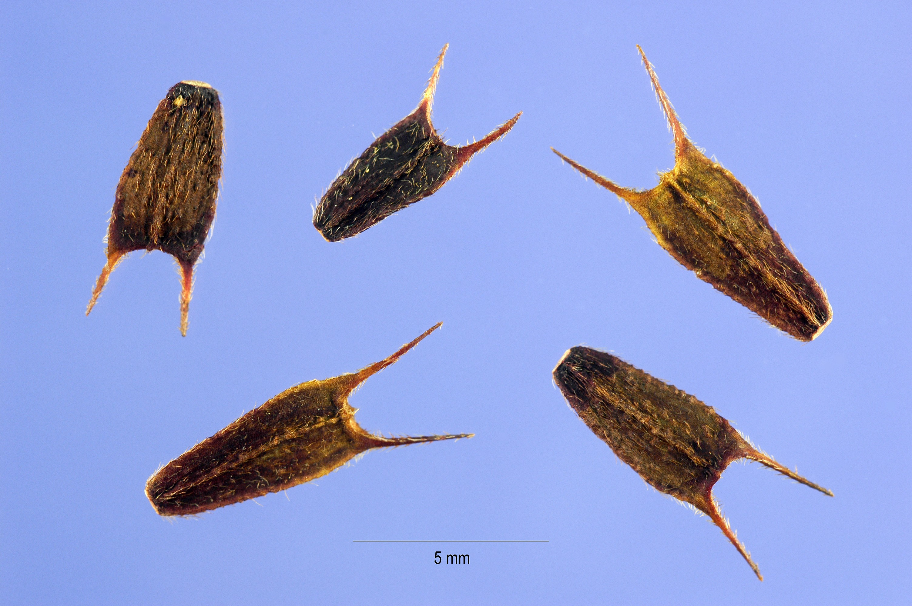 seeds of Bidens frondosa from Steve Hurst, Provided by ARS Systematic Botany and Mycology Laboratory. United States, VA, Arlington.